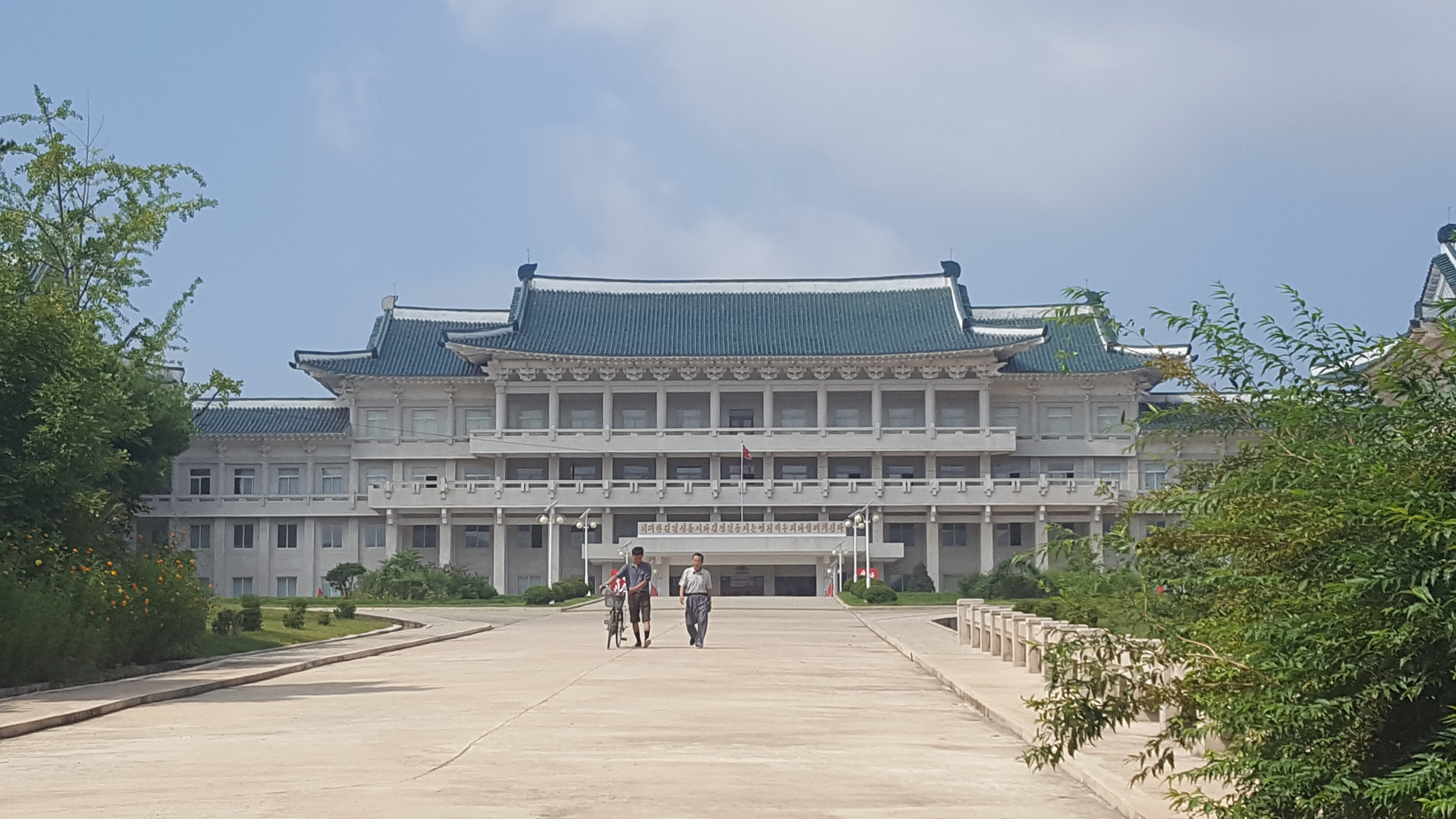 The appearance of Koryo Songgyungwan University in North Korea